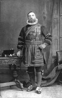 David Spence VC (1818 - 17 April 1877) was a Scottish recipient of the Victoria Cross, the highest and most prestigious award for gallantry in the face of the enemy that can be awarded to British and Commonwealth forces. His medal is in Derby Museum